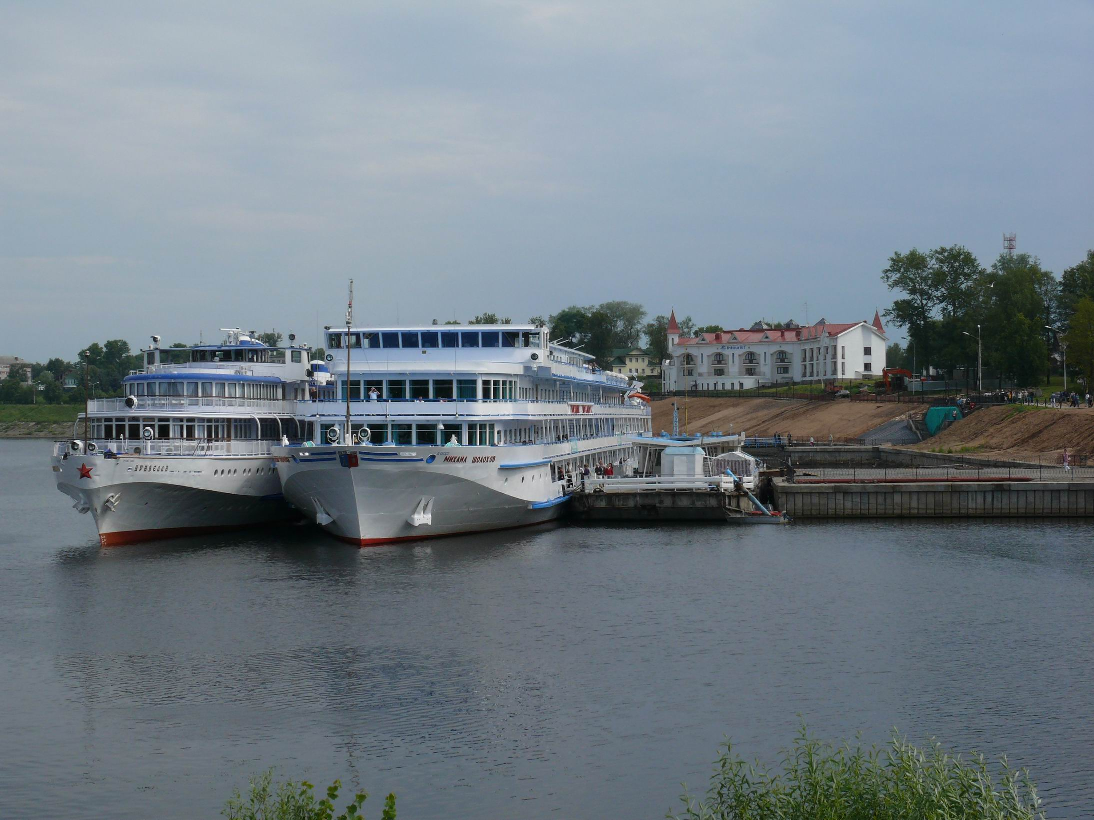 Berth in Uglich. A view of quay and new hotel Intourist